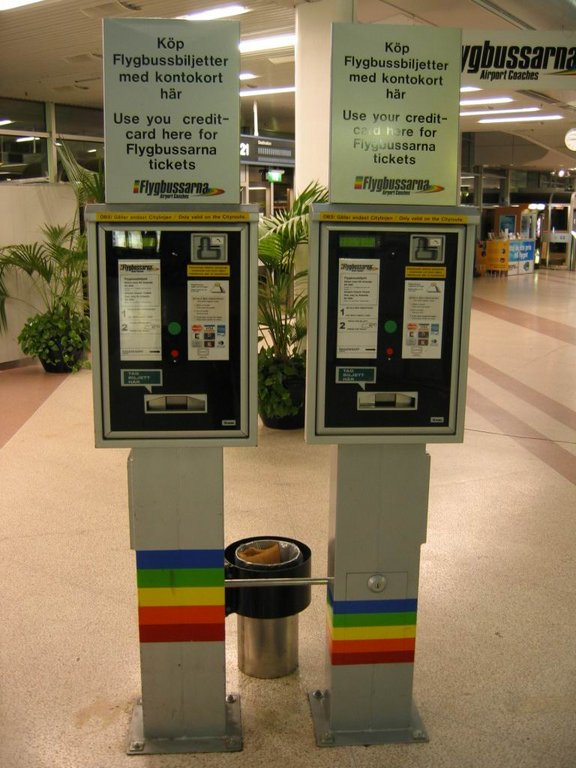 Bus operator Flygbussarna Airport Coaches' ticket machines at Cityterminalen in Stockholm.